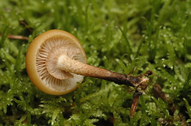 Kuehneromyces mutabilis from Commanster, Belgium. The determination of the species shown in this picture has been verified.